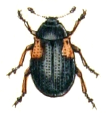 Tritoma bipustulata, from Calwer's Käferbuch, Table 46, Picture 2. Taxonomy was updated to 2008, using mostly the sites Fauna Europaea and BioLib. Please contact Sarefo if the determination is wrong!